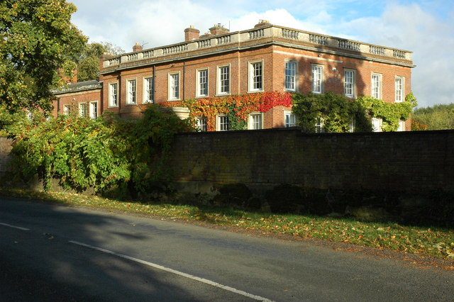 Bosbury House Pevsner describes Bosbury House as 'Georgian with additions in 1873'. Here the house is viewed from the B4220.